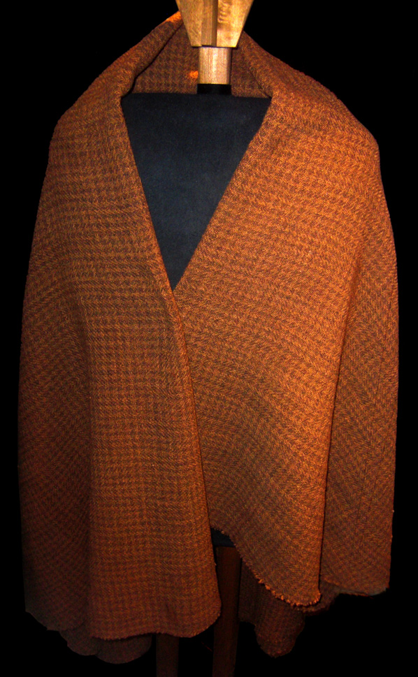 Replica of Gerumsmanteln (i.e. "The Gerum Cape") from the exhibition "Forntid på Falbygden" (i.e. "Prehistory in the Falbygden area") at Falbygdens museum in Falköping, Västergötland, Sweden. The cape was found in 1920 in the bog Hjortamossen upon the table-mountain Gerumsberget, Östra Gerum Parish, Tidaholm Municipality, former Skaraborg County, Västergötland, Västra Götaland County, Sweden. The cape is oval measuring 200×248 cm and woven of wool. The cape is dating from the Pre-Roman Iron Age.